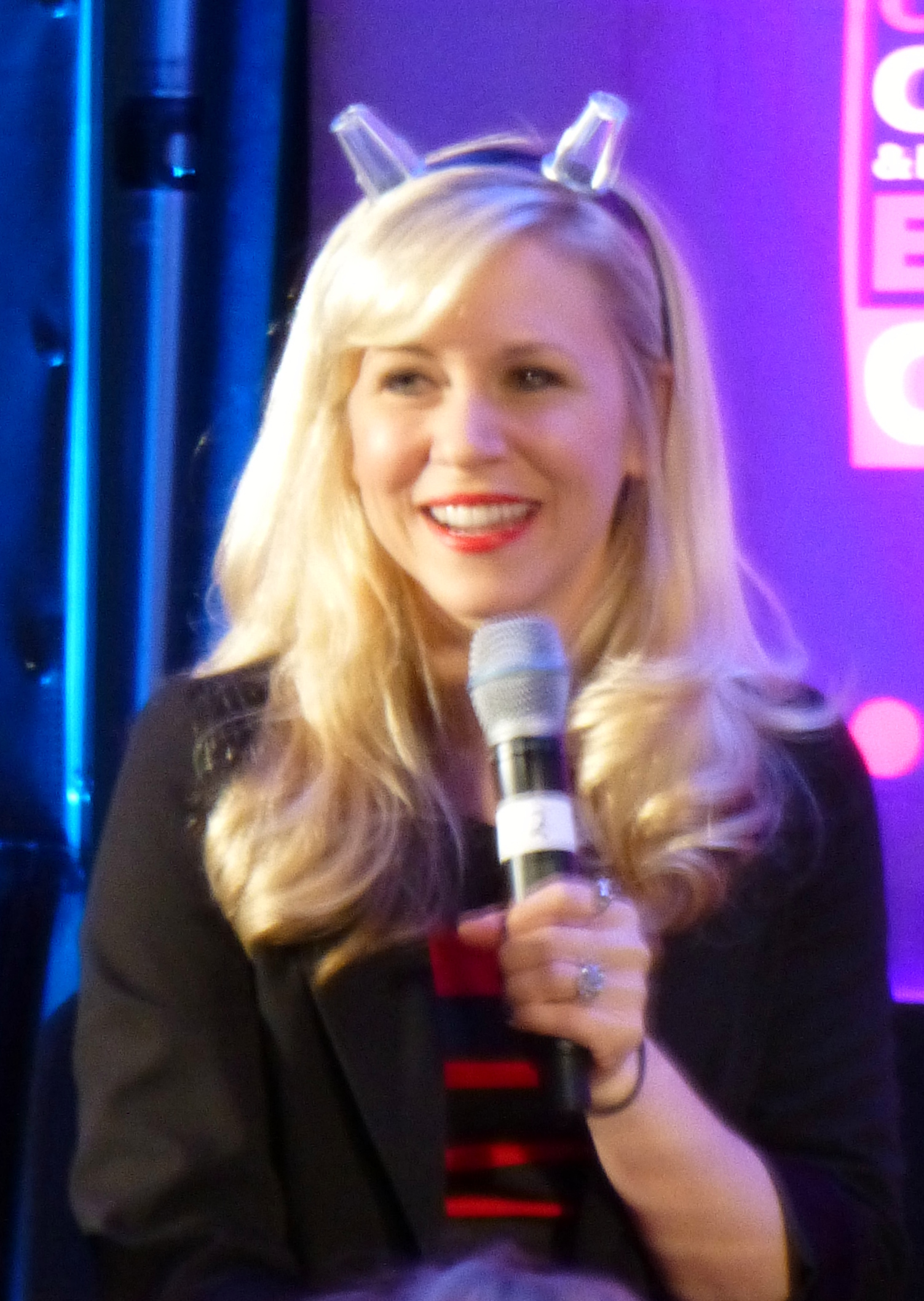 Ashley Eckstein First Annual Chicago Comic & Entertainment Expo (C2E2) Crown Championships of Cosplay in 2014.